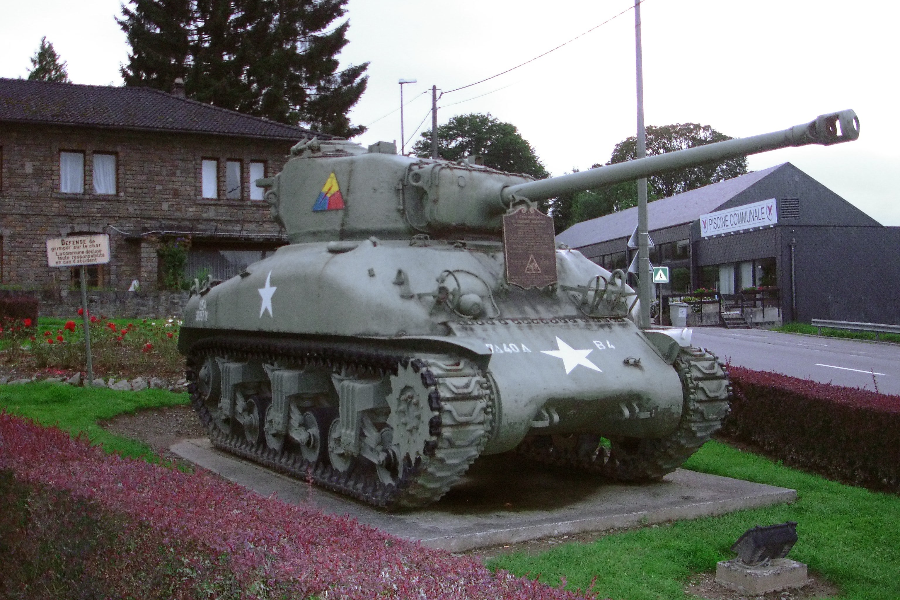 A memorial to the 7th Armored Division and the Battle of the Bulge in Vielsalm, Belgium.